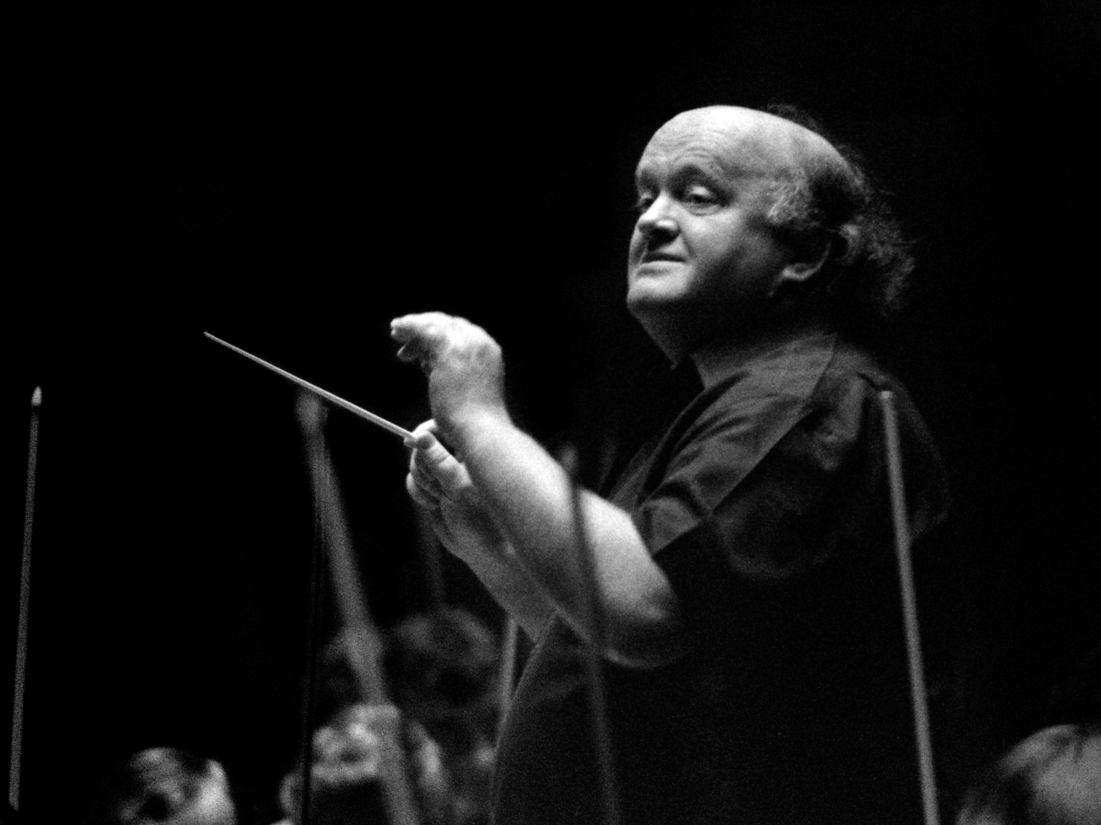 The German conductor Horst Stein rehearsing with the Bamberg Symphony Orchestra